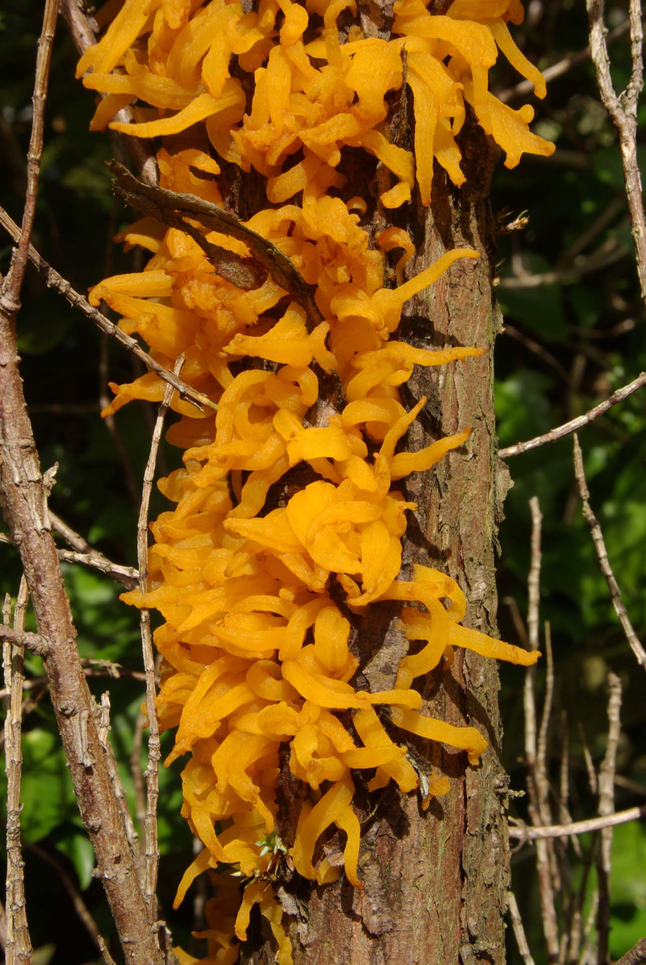 Gymnsporangium telia emerging from Juniperus bark - close-up